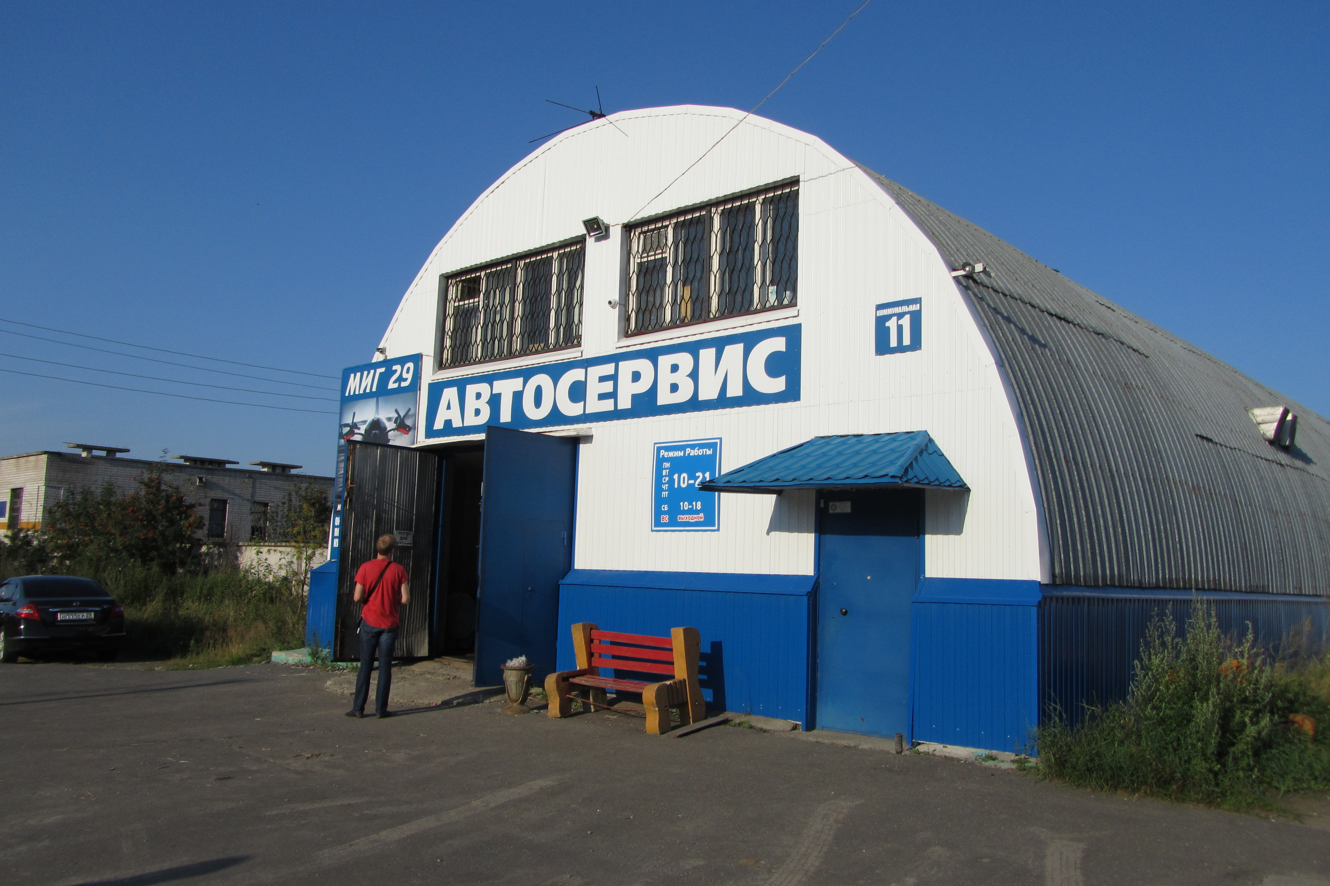 Communalnaya Street, Severodvinsk